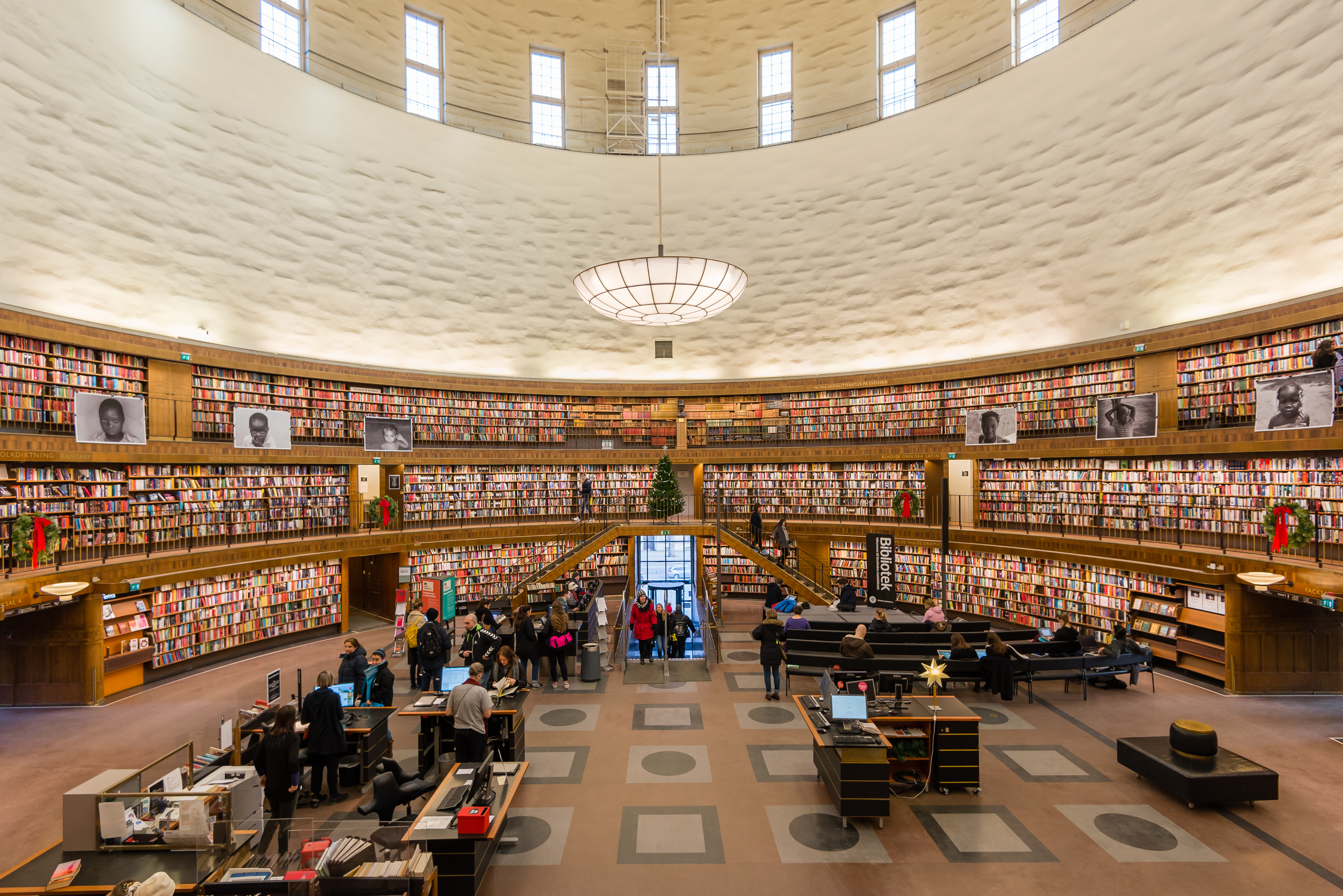 Stockholm Public Library (interior)